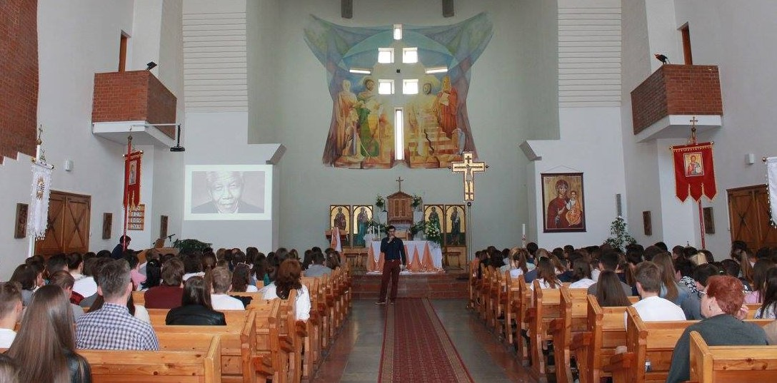 Motivational talk by Károly Sándor Pallai on the importance of literature, translation, the cultures of the oceans, on inspiration, responsibility and Jesuit education, Fényi Gyula Jesuit High School (22 May 2017)